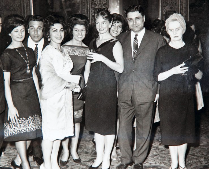 Dame Ninette de Valois, (far right), at a cocktail party on one of her visits to Tehran. Sandra Vane, (centre), Abyaz Palace, 1962.